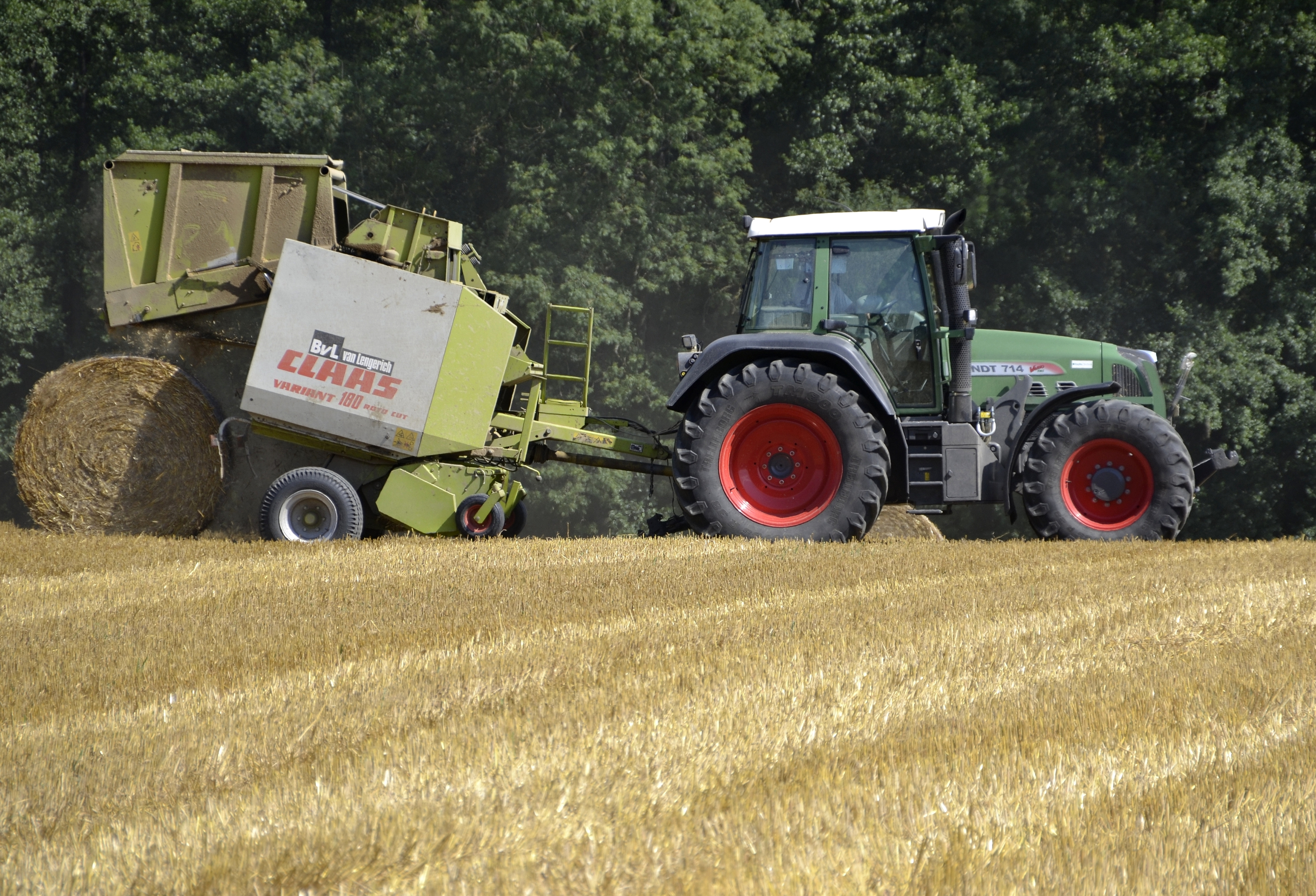 A Fendt 714 Vario with a hay baler on a field in Bavaria, Germany.